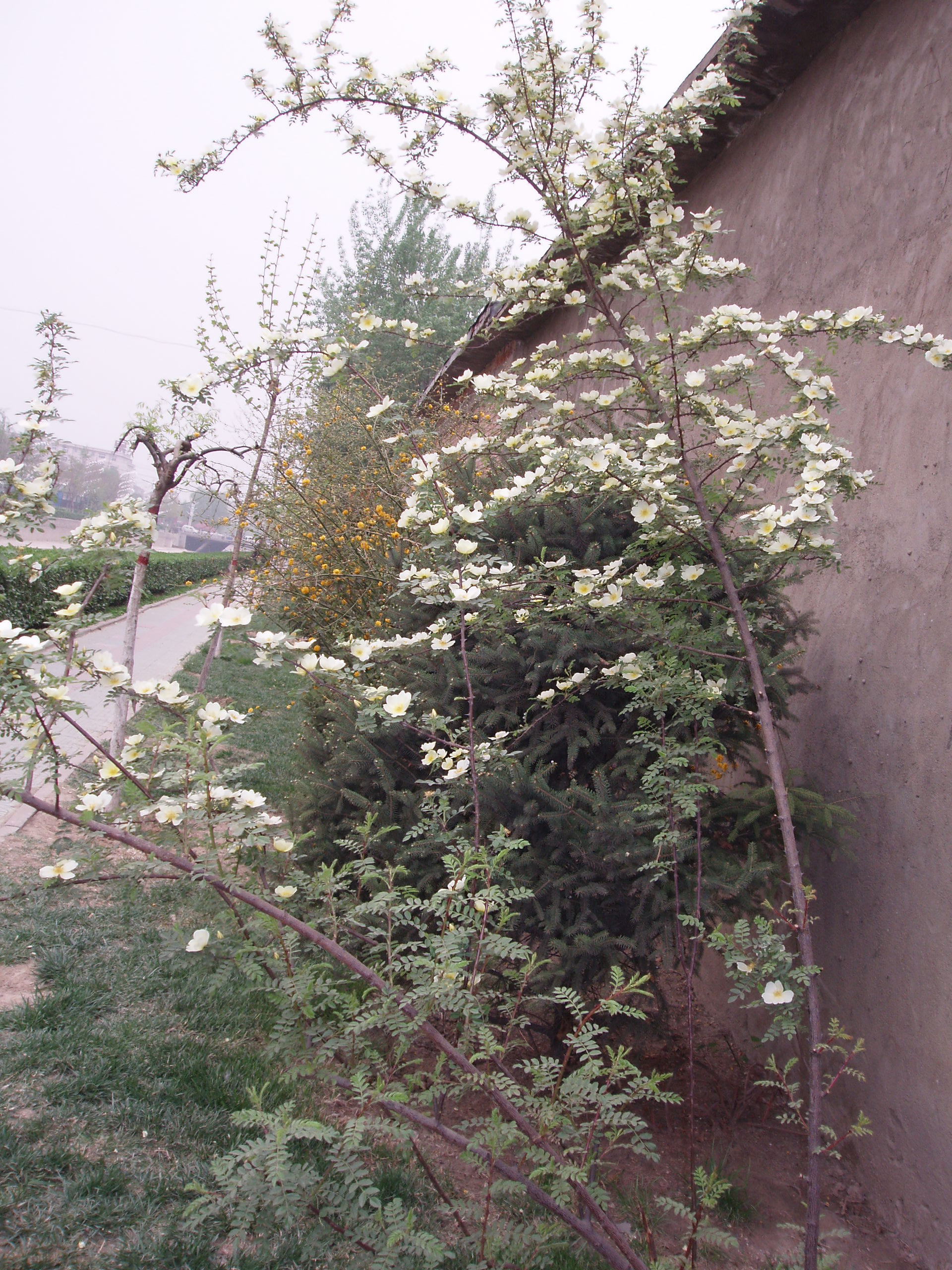 Canary bird flowers